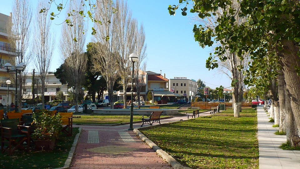 The picture depicts the central square of the Gerakas Municipality at East Attica/Greece.